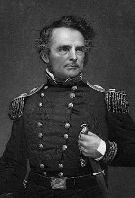 An engraving of Major General Gideon J. Pillow, United States Volunteers, done by Henry Samuel Sadd. Tennessee State Library and Archives, Image ID: 3956